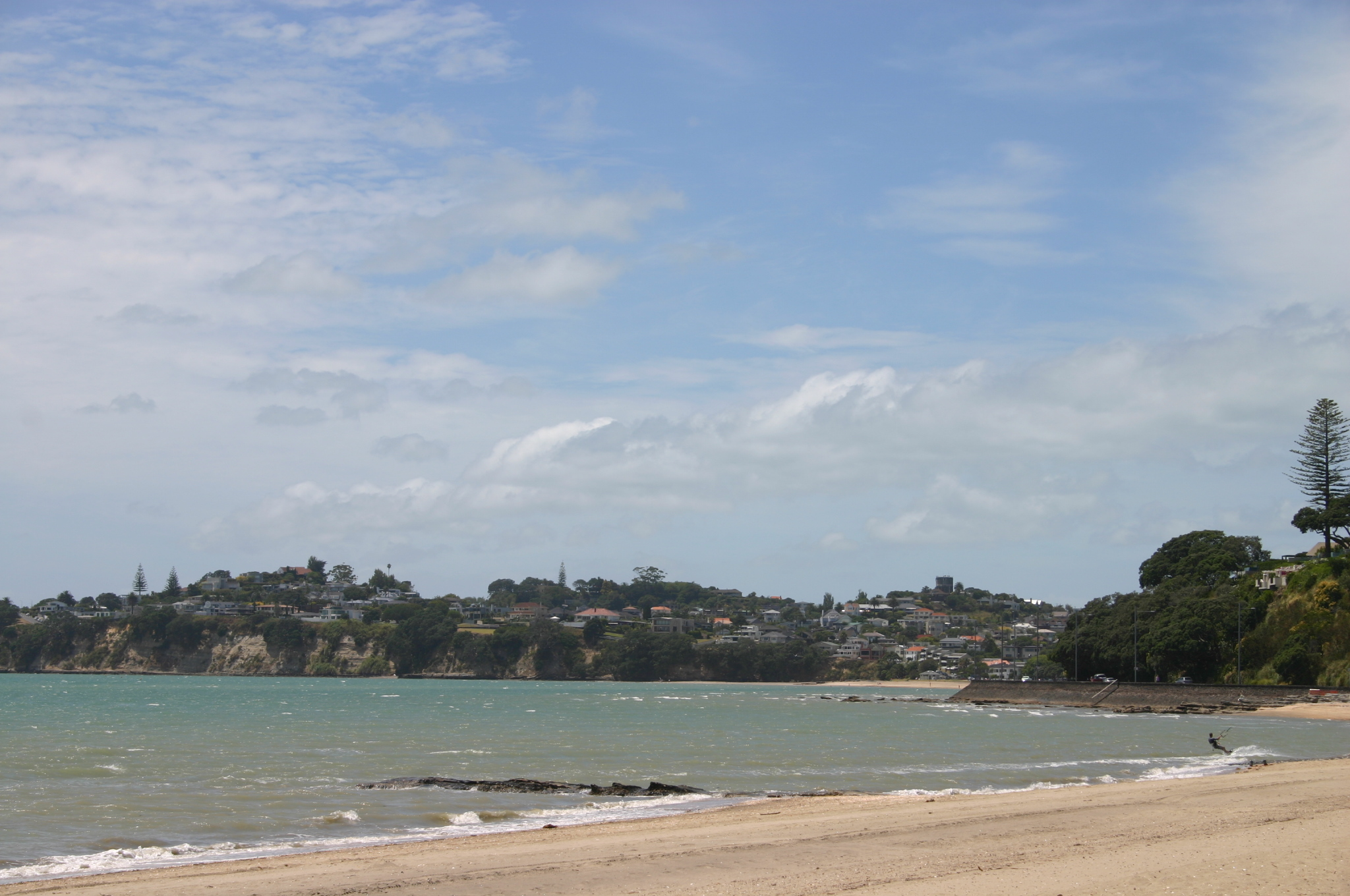 View of Kohimarama beach looking towards St Heliers, Auckland, New Zealand